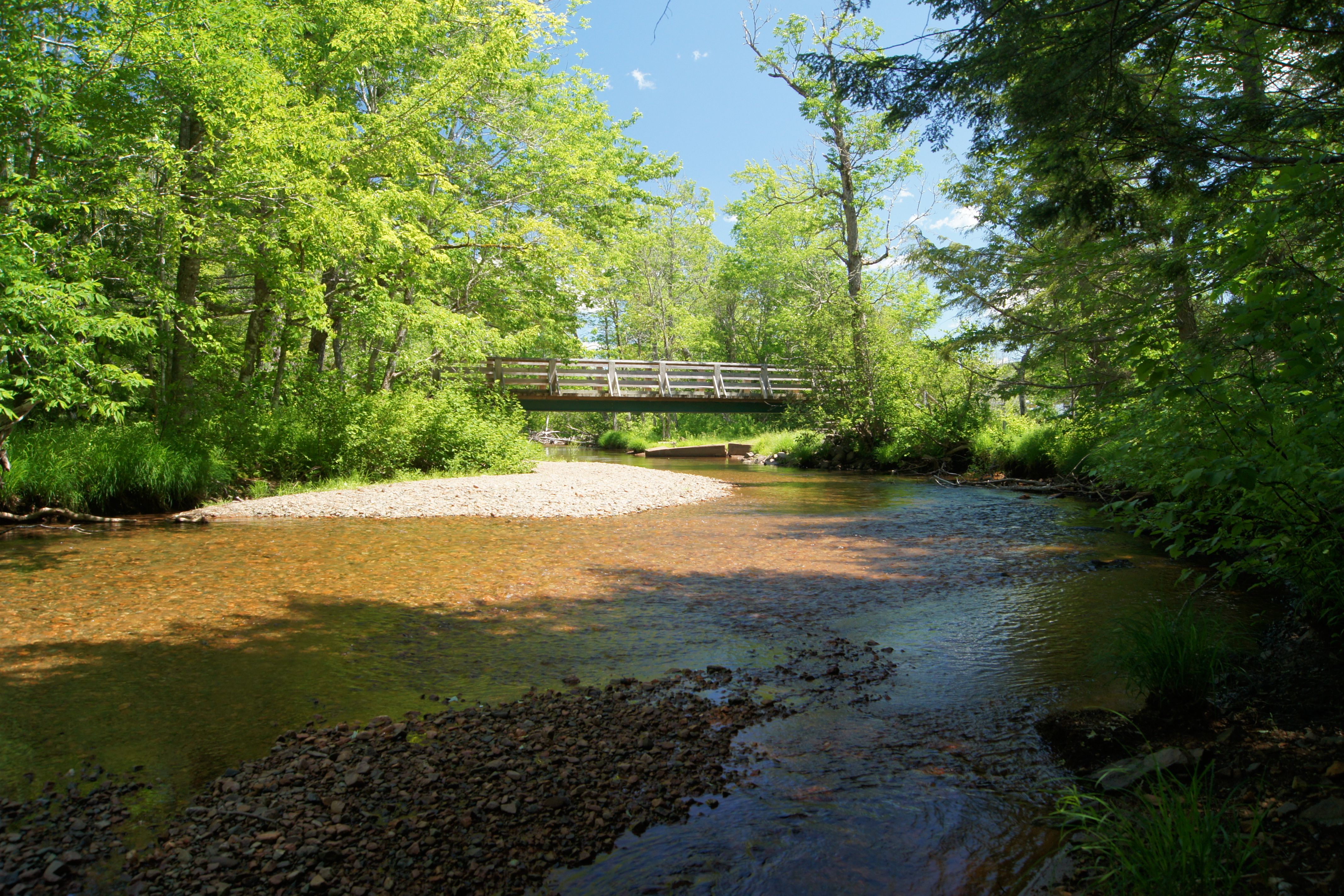 The Wallace River as it flows through the Wentworth Provincial Park